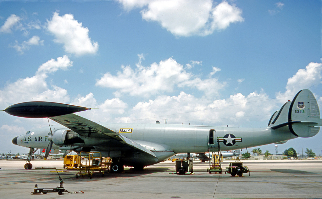 Lockheed EC-121T 52-3412 Warning Star of the 79 AEW&CS at Homestead AFB Florida in 1976